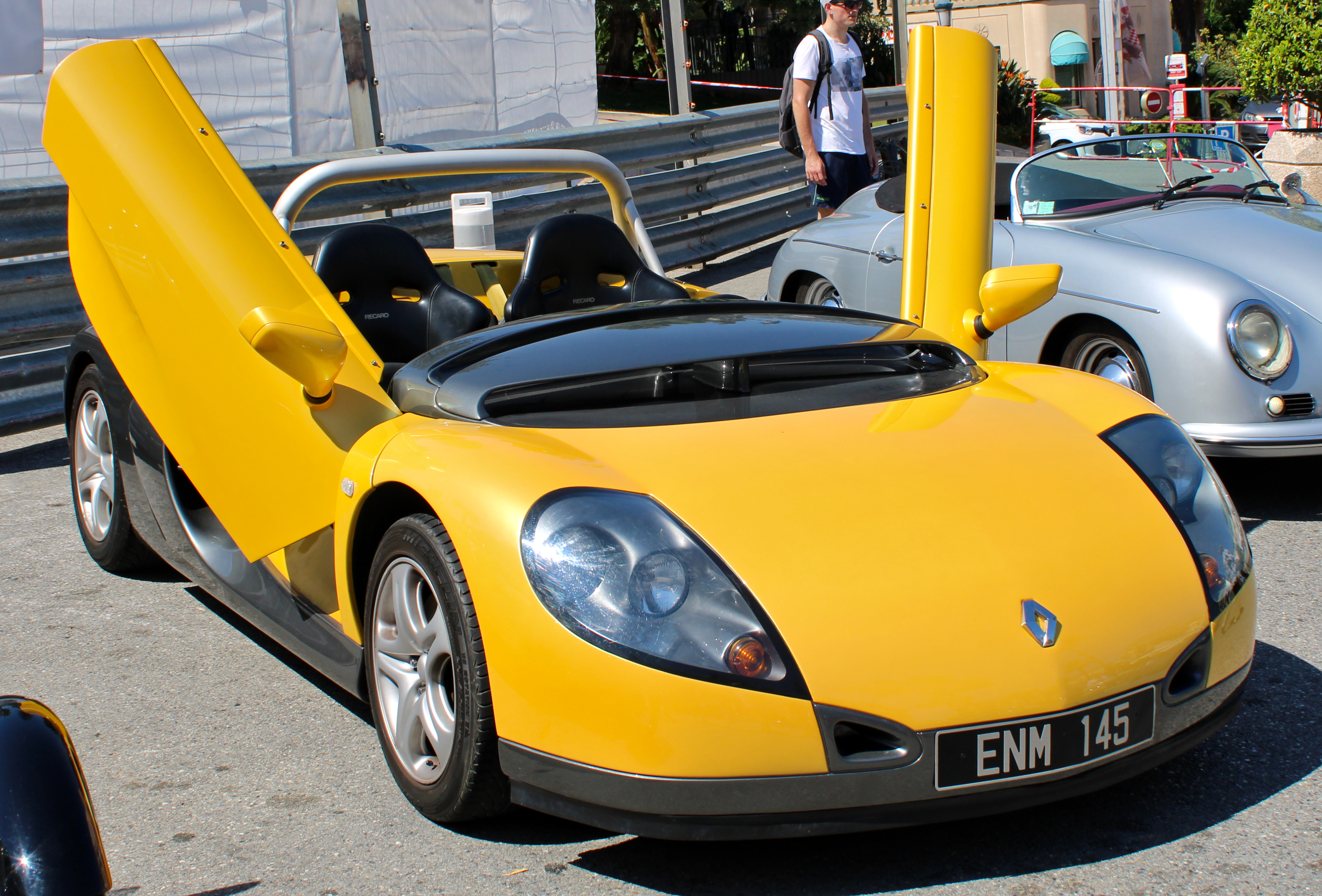 Renault Spider in Monaco